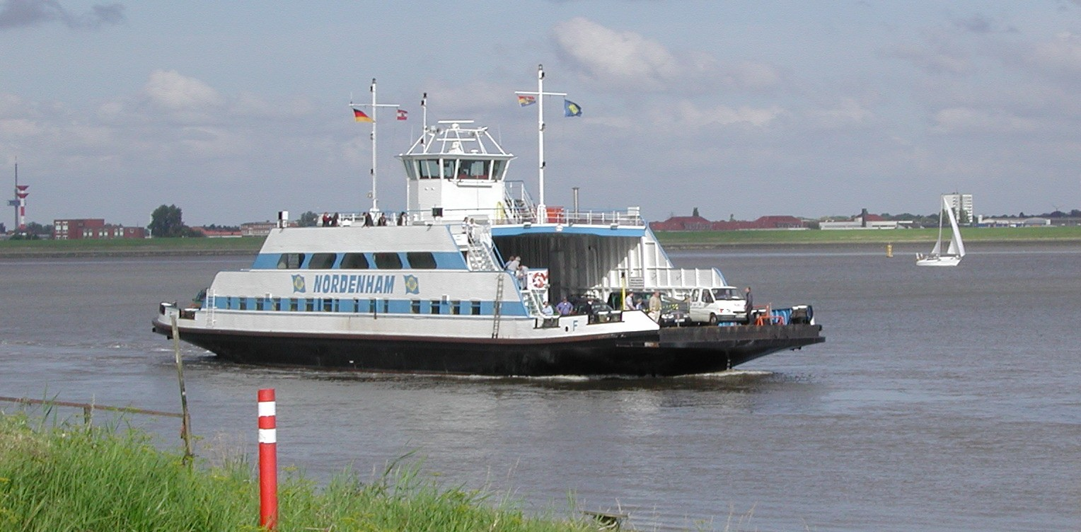 The Ferry "Nordenham" on the Weser-River between Bremerhaven and Nordenham-Blexen.